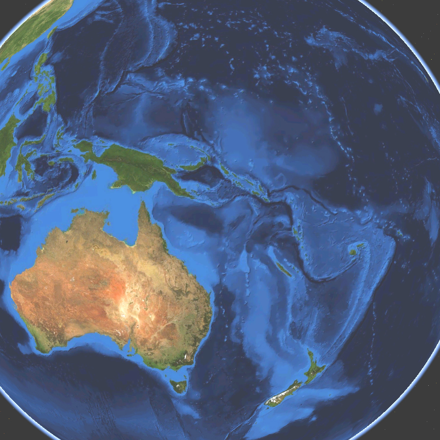 Satellite map of Oceania. Land terrain and bathymetry (ocean-floor topography).